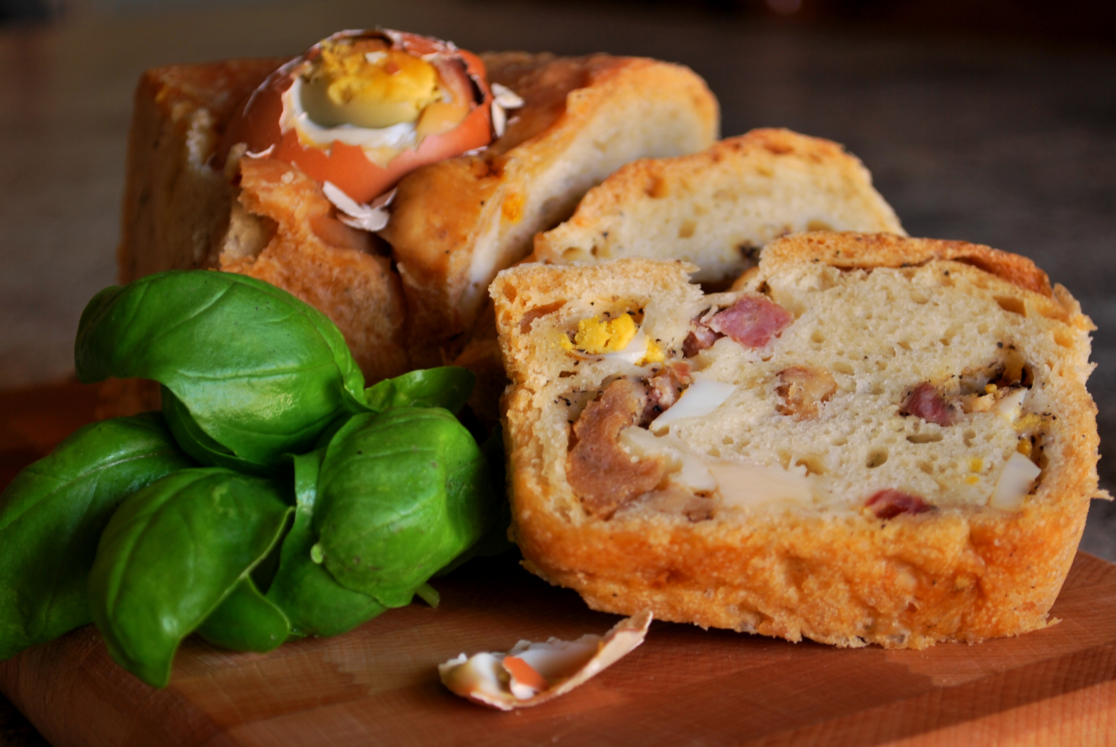 A Casatiello, speciality Easter dish from Naples (Campania - Italy)